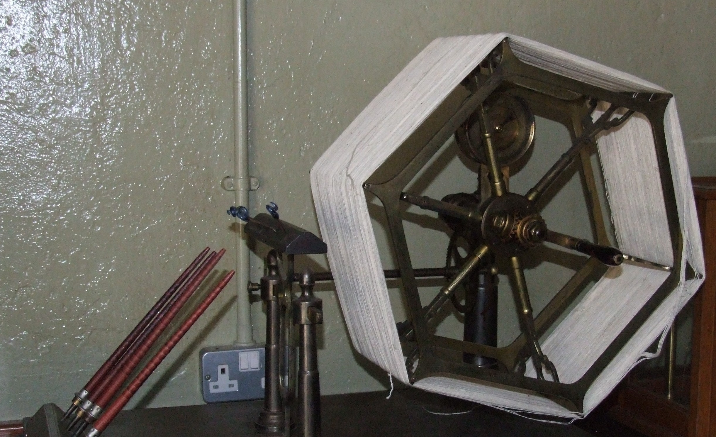 Helmshore Mills Textile Museum. - Google Maps - Google Earth The wrap reel by Goodbrand of Manchester- accurately measures out lengths in lea (120 yards)- which are then weighed to determine the cotton count.